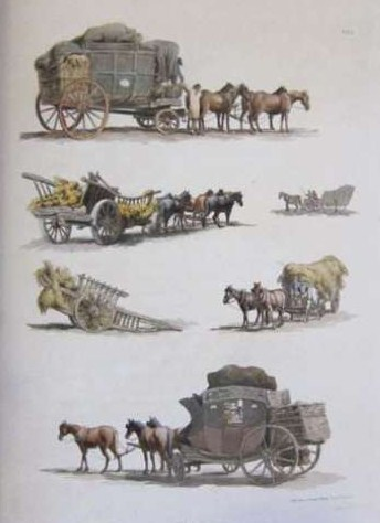 Aquatint sketches of working animals from Sketches in Flanders and Holland (1816) by Robert Hills.